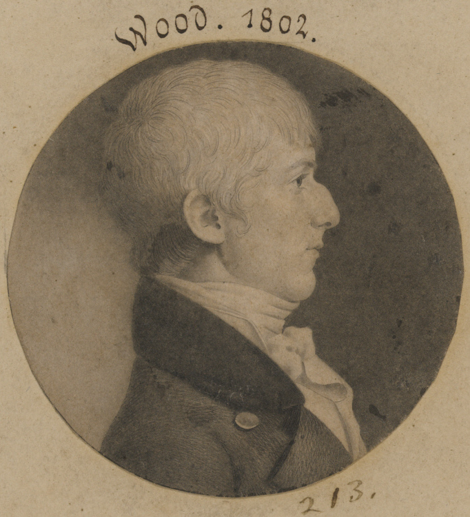 Henry Woods Artist Charles Balthazar Julien Févret de Saint-Mémin, 12 Mar 1770 - 23 Jun 1852 Sitter Henry Woods, 1764 - 1826 Date 1802 Type Print Medium Engraving on paper Dimensions Image: 5.5 x 5.5 cm (2 3/16 x 2 3/16") Sheet: 55 x 39.9 cm (21 5/8 x 15 11/16") Credit Line Smithsonian Institution; gift of Mr. and Mrs. Paul Mellon Object number S/NPG.74.39.5.28 Data Source National Portrait Gallery